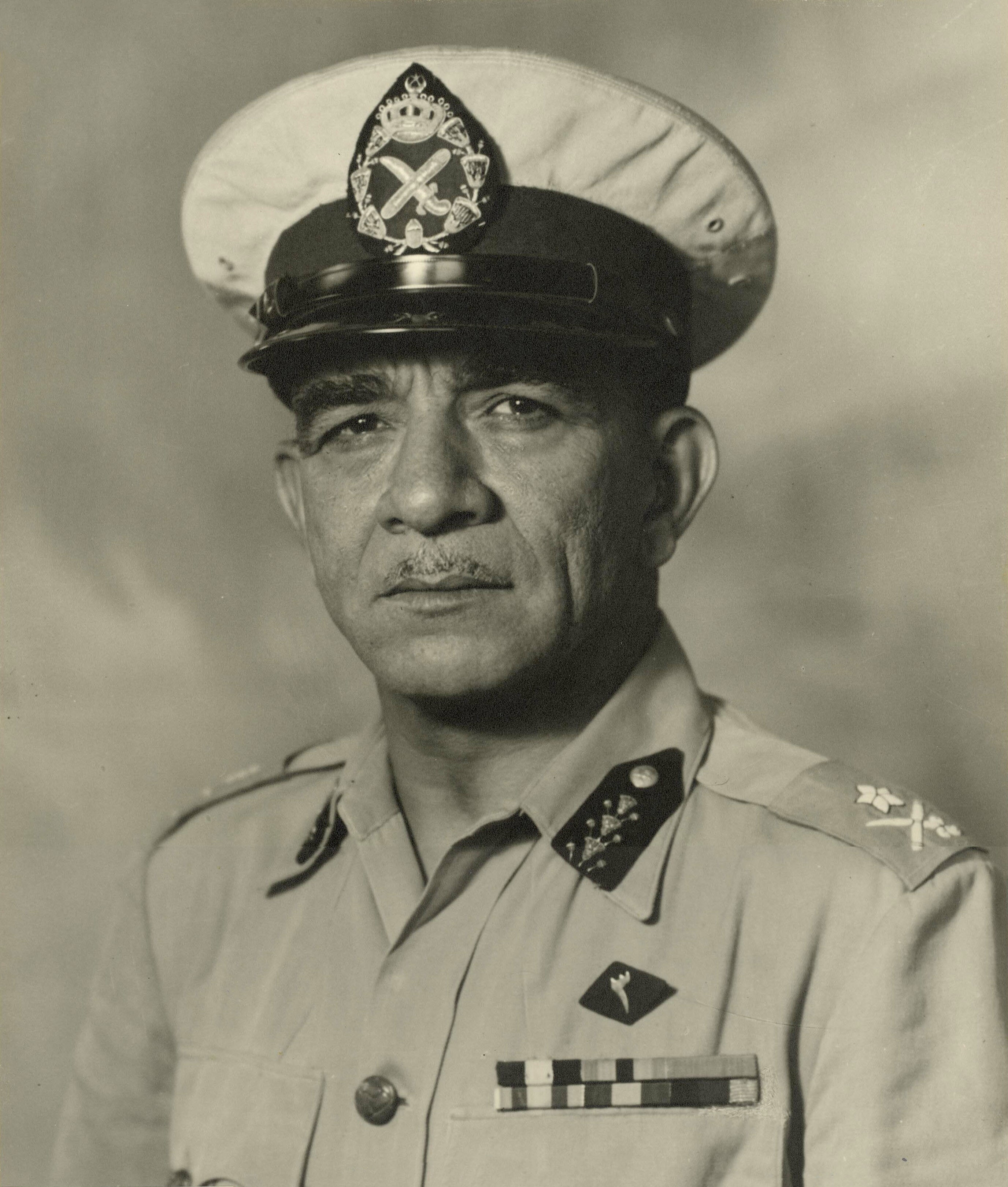 Portrait of Muhammad Naguib (1904-1984), the first President of Egypt (1953-1954), in military uniform.